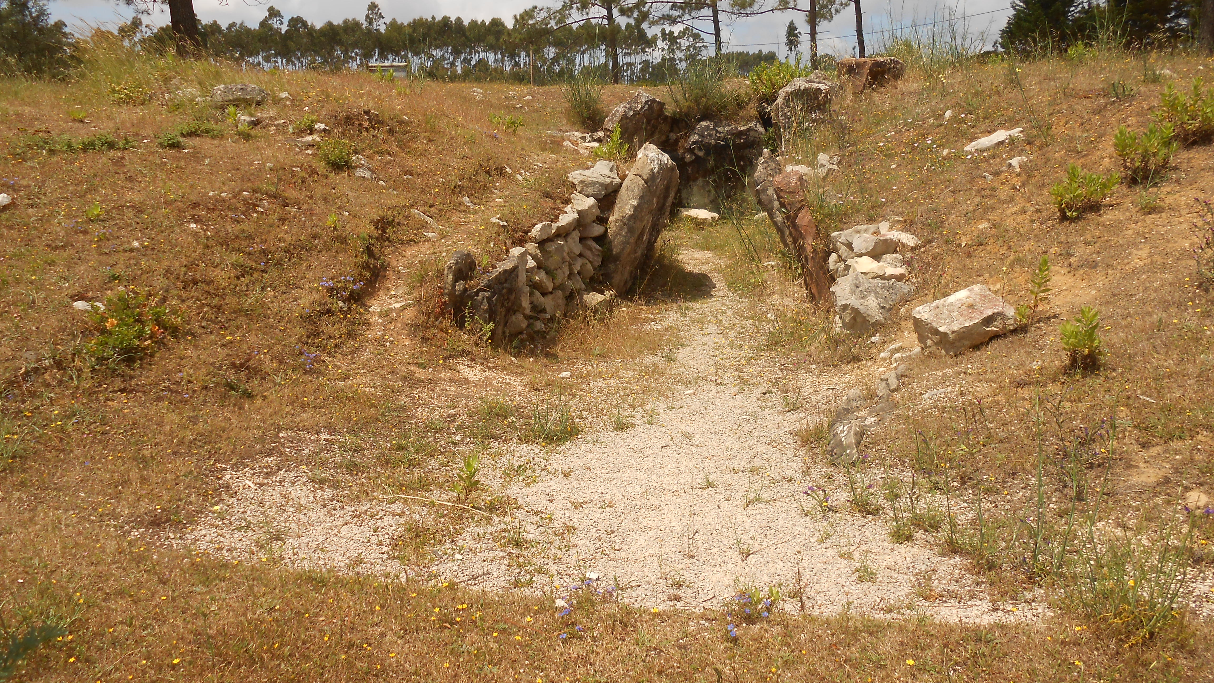 The Dólmen das Carniçosas in the Serra das Alhadas, located in the Figueira da Foz municipality.